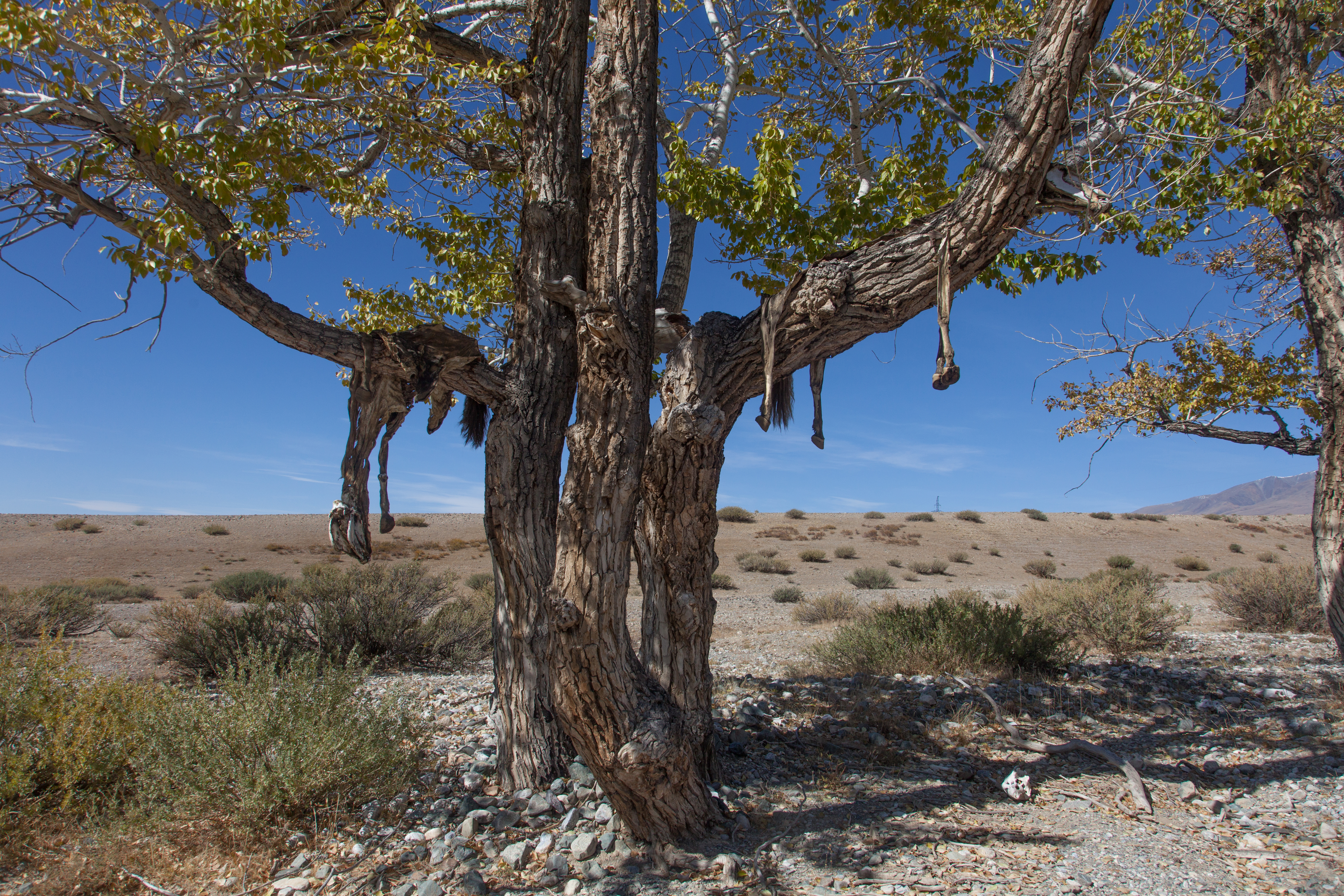 shamanistic rite with a horse in the Altai Mountains